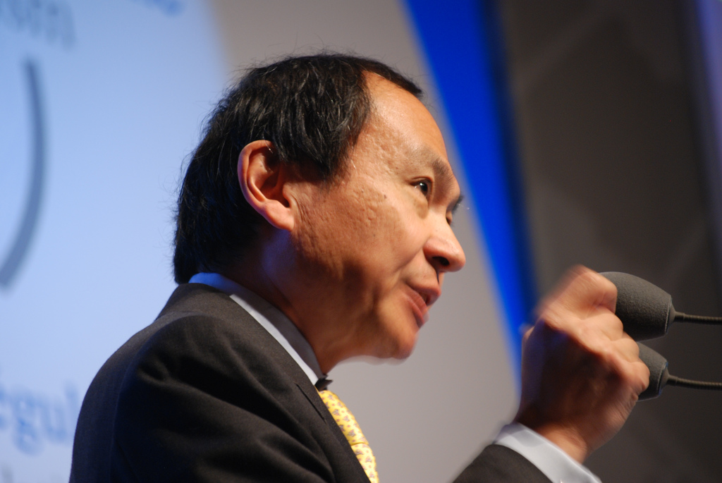 Francis Fukuyama at New World, New Capitalism symposium, Paris, 8 January 2009